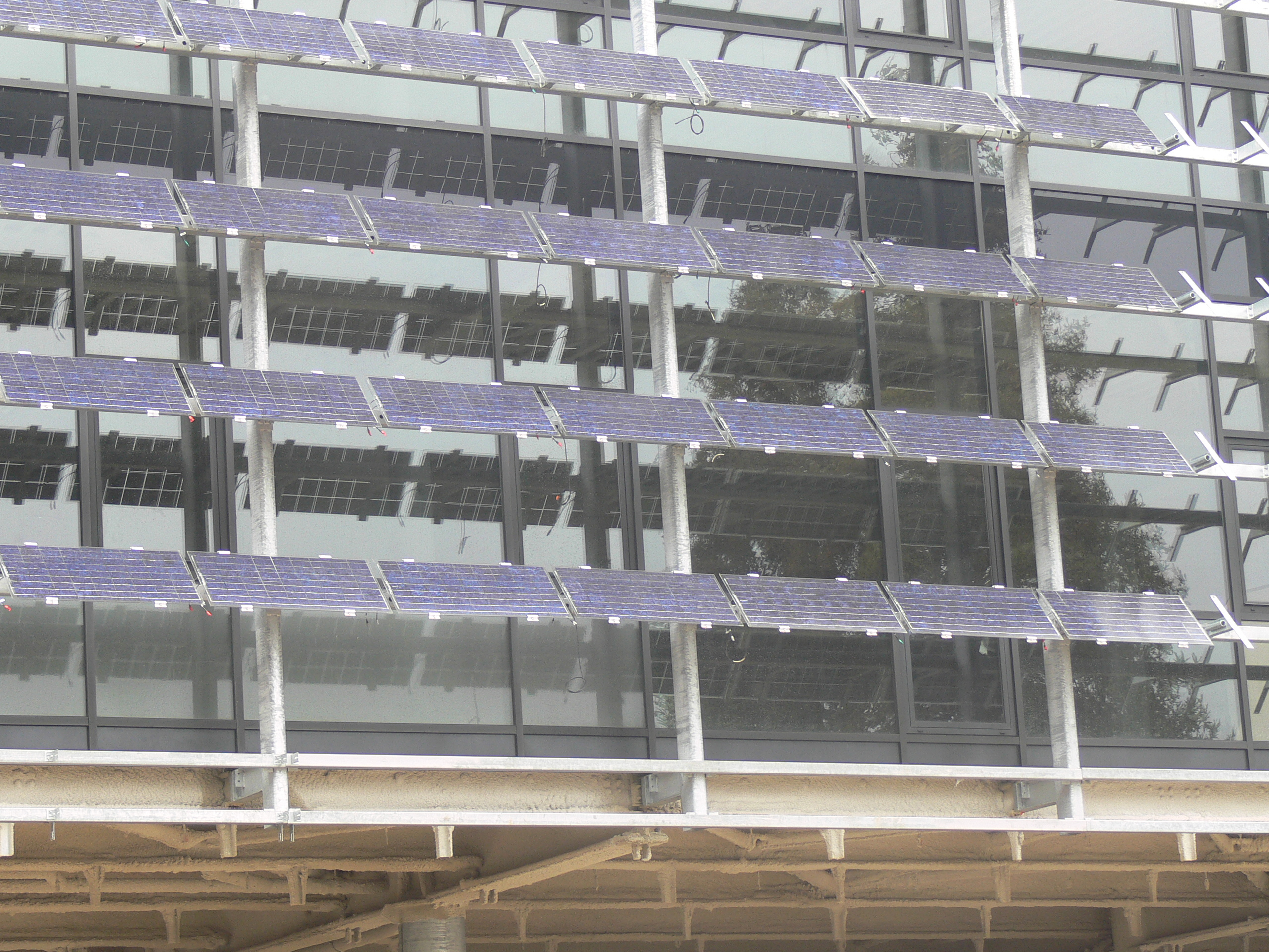 Photovoltaic panels also used as sun visors, seat of the regional council Nord-Pas-de-Calais, in the northern France (November 2009)